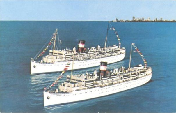 SS Yarmouth and SS Yarmouth Castle (foreground, formerly Evangeline), the "Twin Fun Ships" on Miami–Freeport–Nassau cruises. The Evangeline and Yarmouth were sold in 1961 to the Yarmouth Steamship Company, and operated in competition out of Miami. The Evangeline was renamed Yarmouth Castle. This official card shows both vessels. The Yarmouth Castle was lost to fire in 1965, which hastened the demise of the company. The SS Yarmouth also sailed under the name Yarmouth Castle for a period.